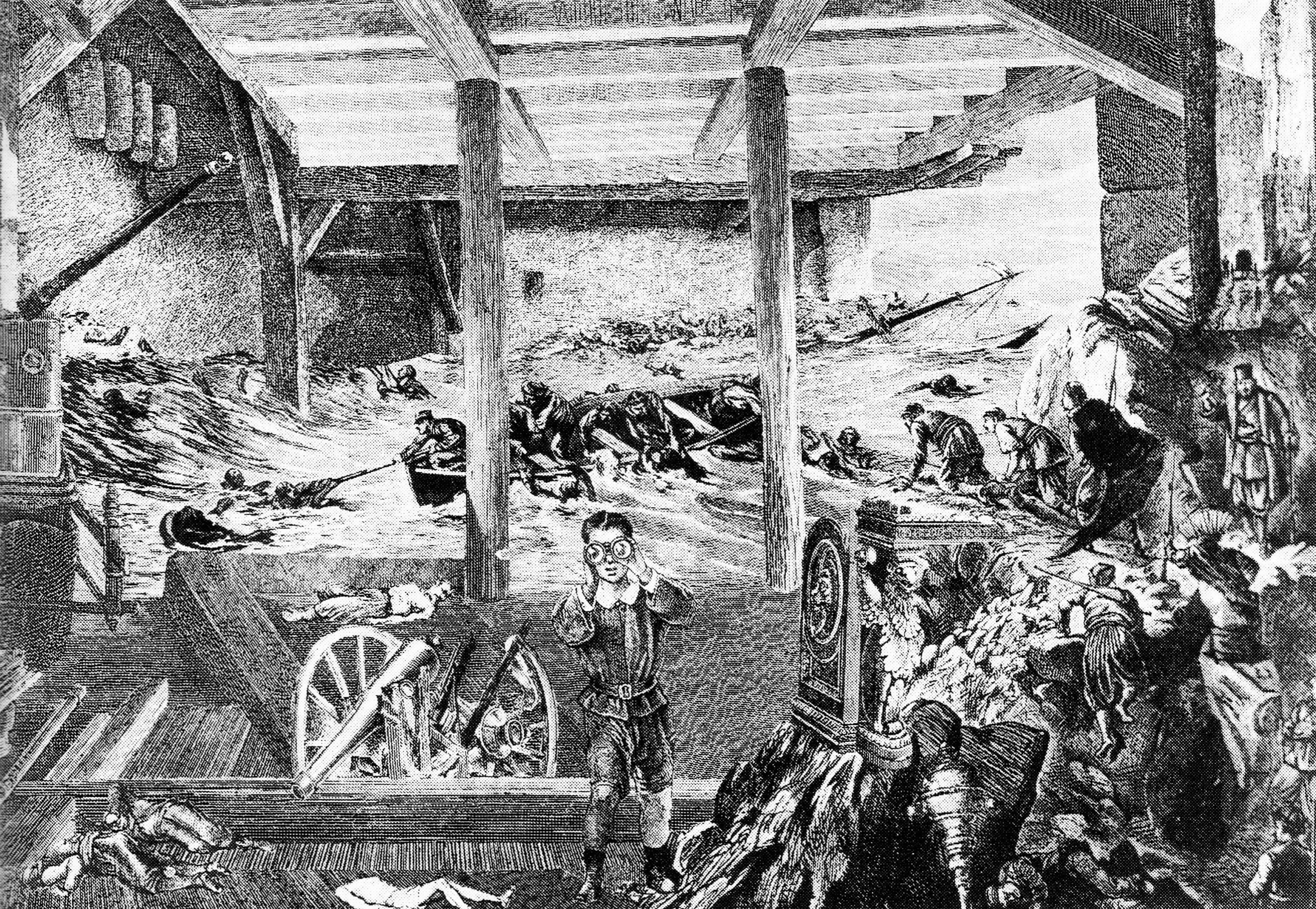 Collage from author Peter Weiss (illustration of his book "Abschied von den Eltern", Collage VI, 1962) 25 x 45 cm